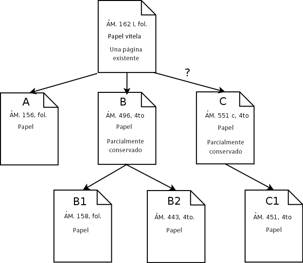 Spanish translation of the scheme of manuscript transmission for Hrafnkels saga, originally uploaded by Haukurth and transfered here.